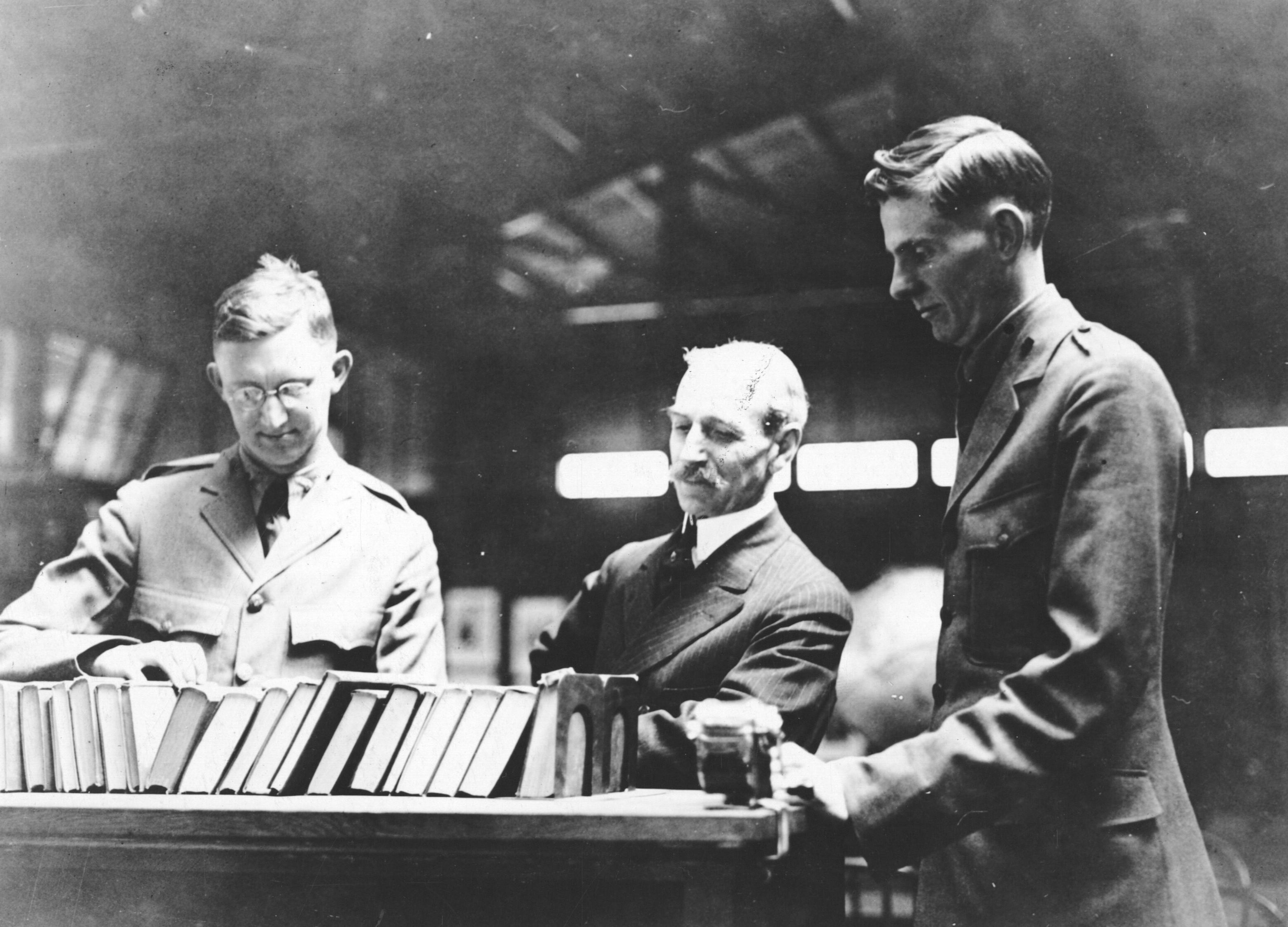 American Library Association - Library Personnel - A.L.A. Camp Kearny Library, Linda Vista, Cal. Left to right: J.J Quire, Camp Librarian; Fr. Herbert Putman, General Director, Library War Service; I.N. Lawson, Jr., Asst. Librarian